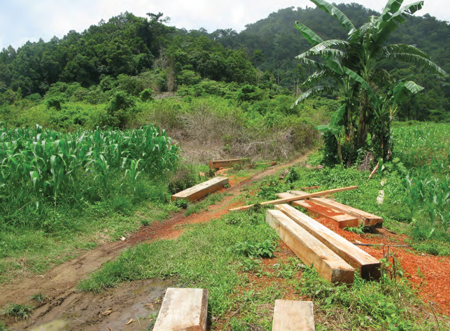 Signs of illegal timber poaching on the boundary of the Mt. Cagua protected area. Photo: RMB.